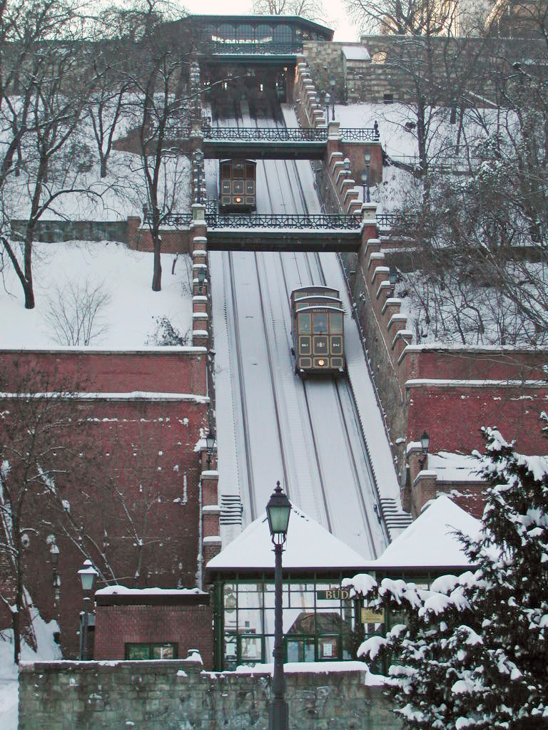 Budapest Castle Hill Funicular